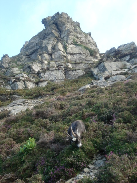 Eros rock The eighty-foot high rock outcrop known as Eros viewed from the coast path. In the foreground is one of the wild goats which populate the hill - very intent on nibbling young heather shoots.